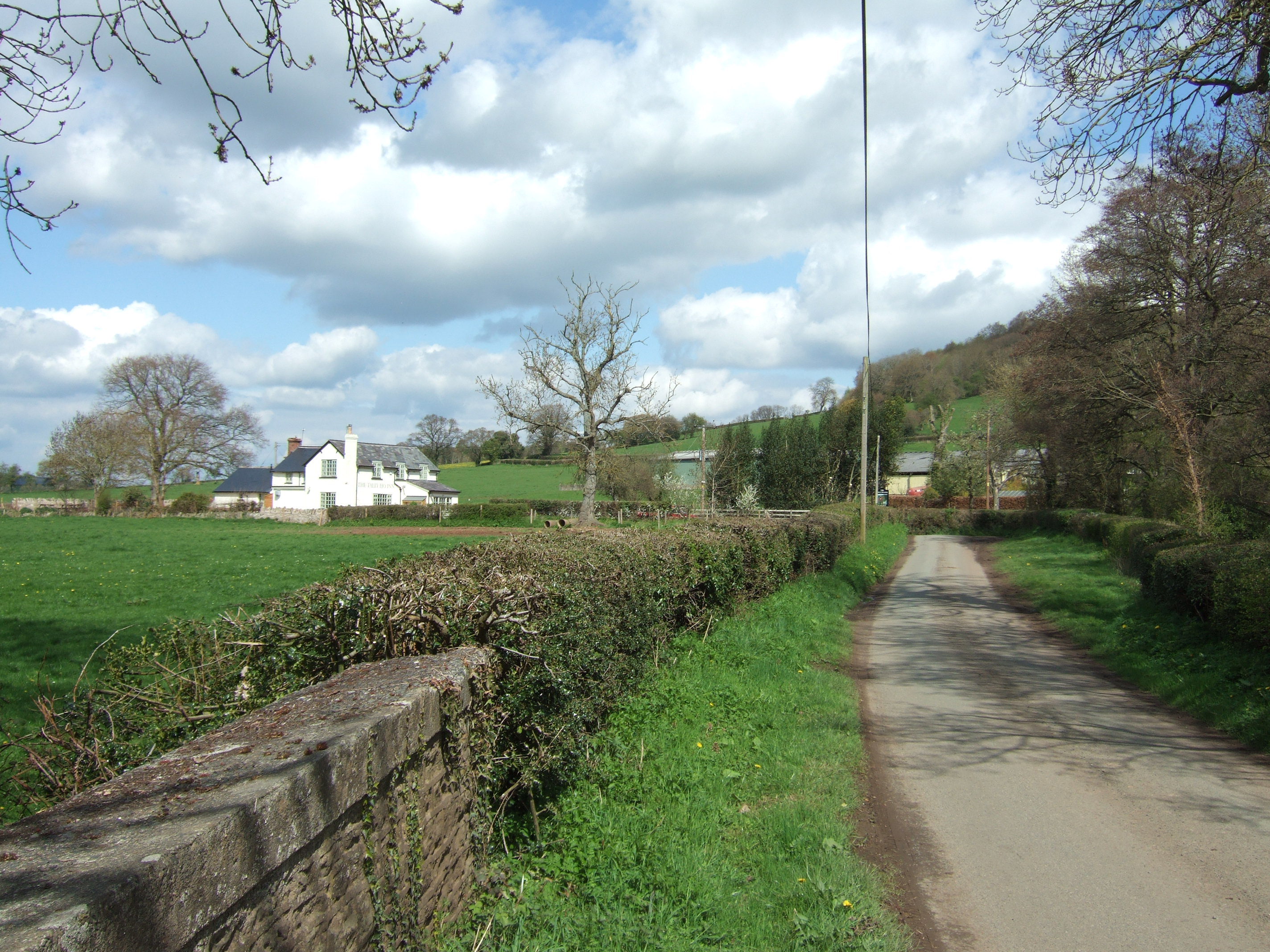 Entering Bouldon in Shropshire. The Tally Ho public house is the white building.